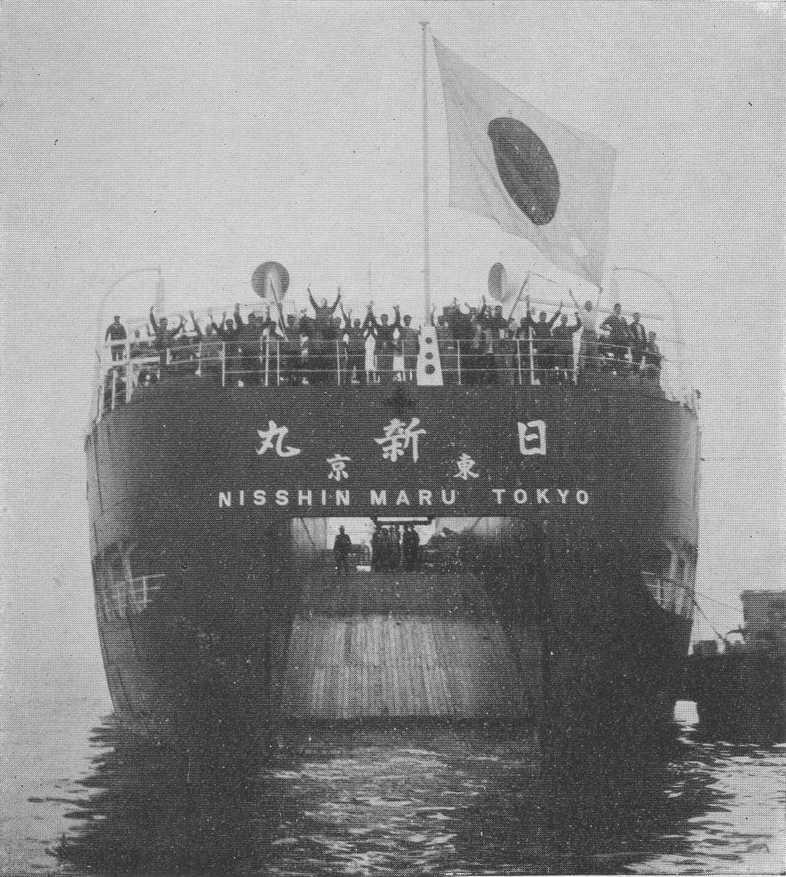 Rear end of Whaling factory ship "Nisshin Maru"(1936).